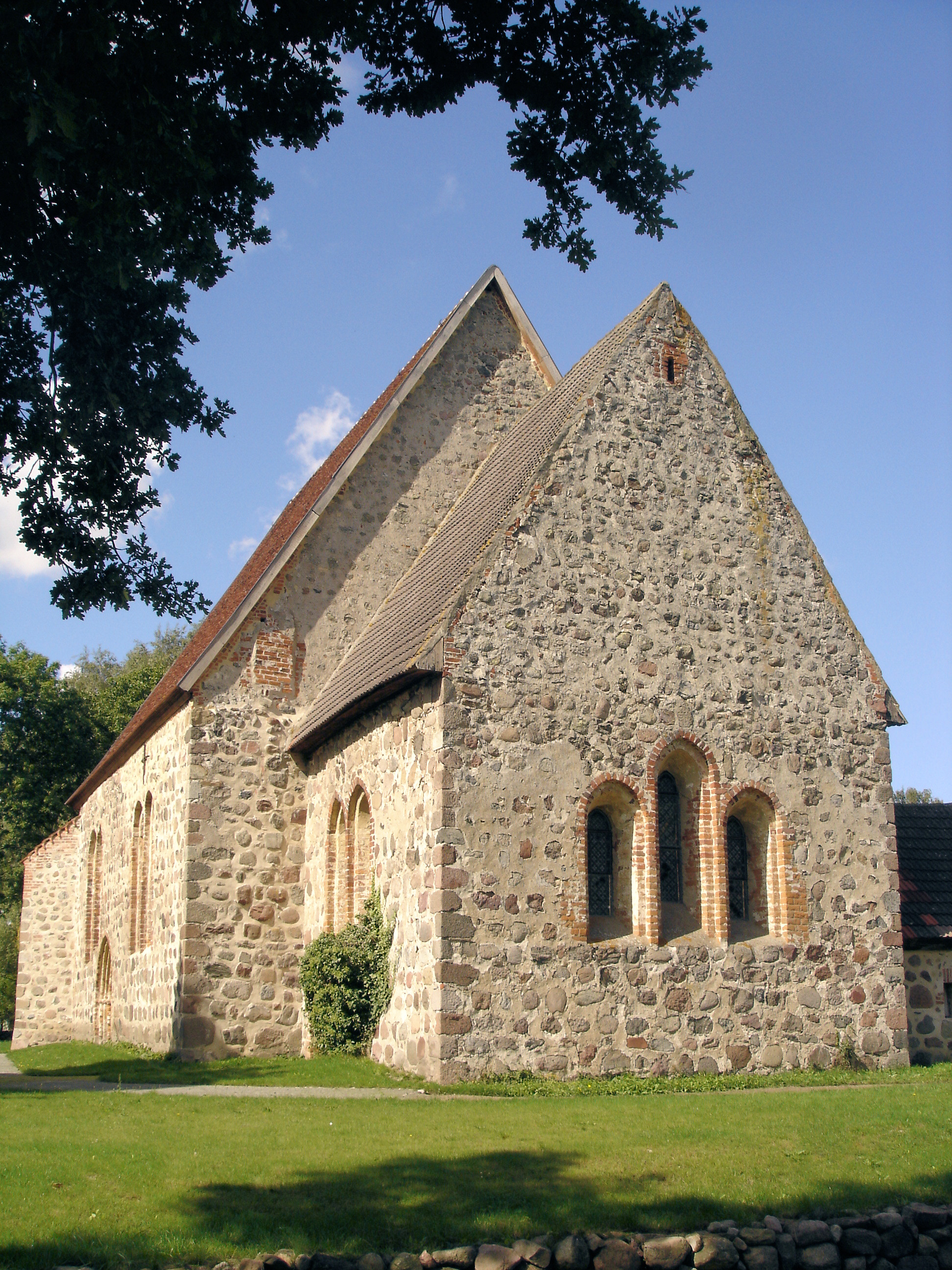 Church in Thelkow, Mecklenburg, Germany